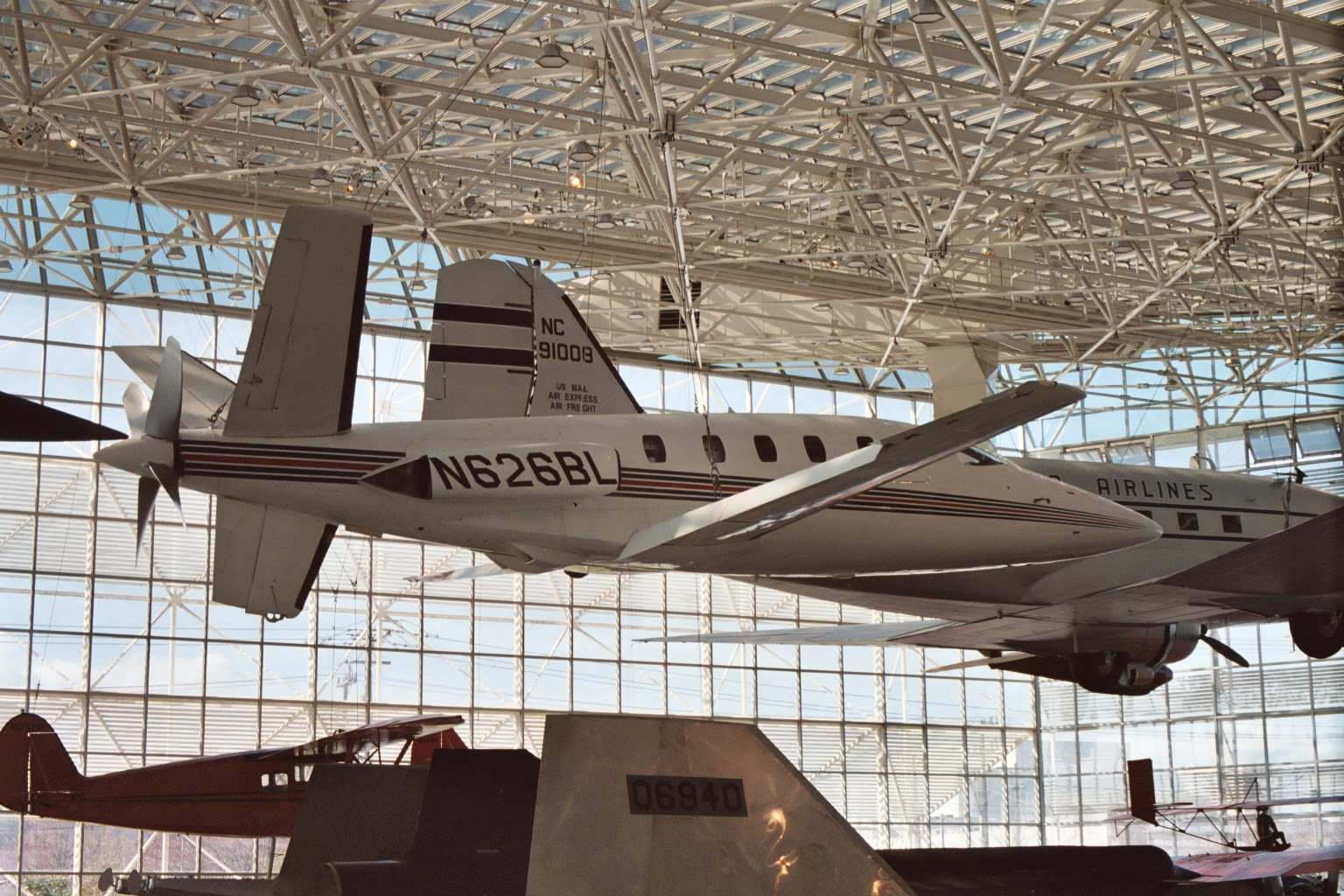 Joe Elliott, 2006